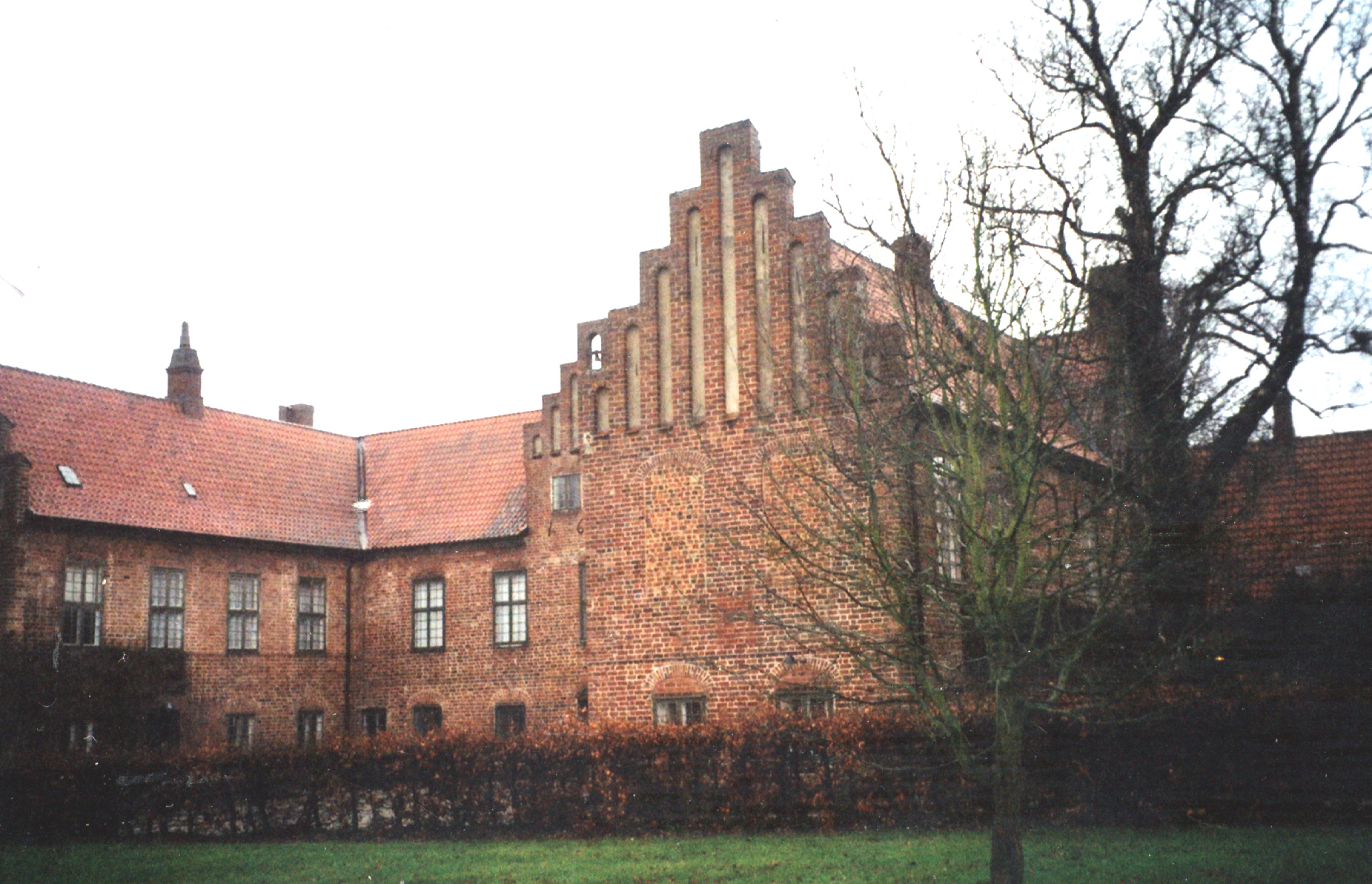 Roskilde.The former Convent